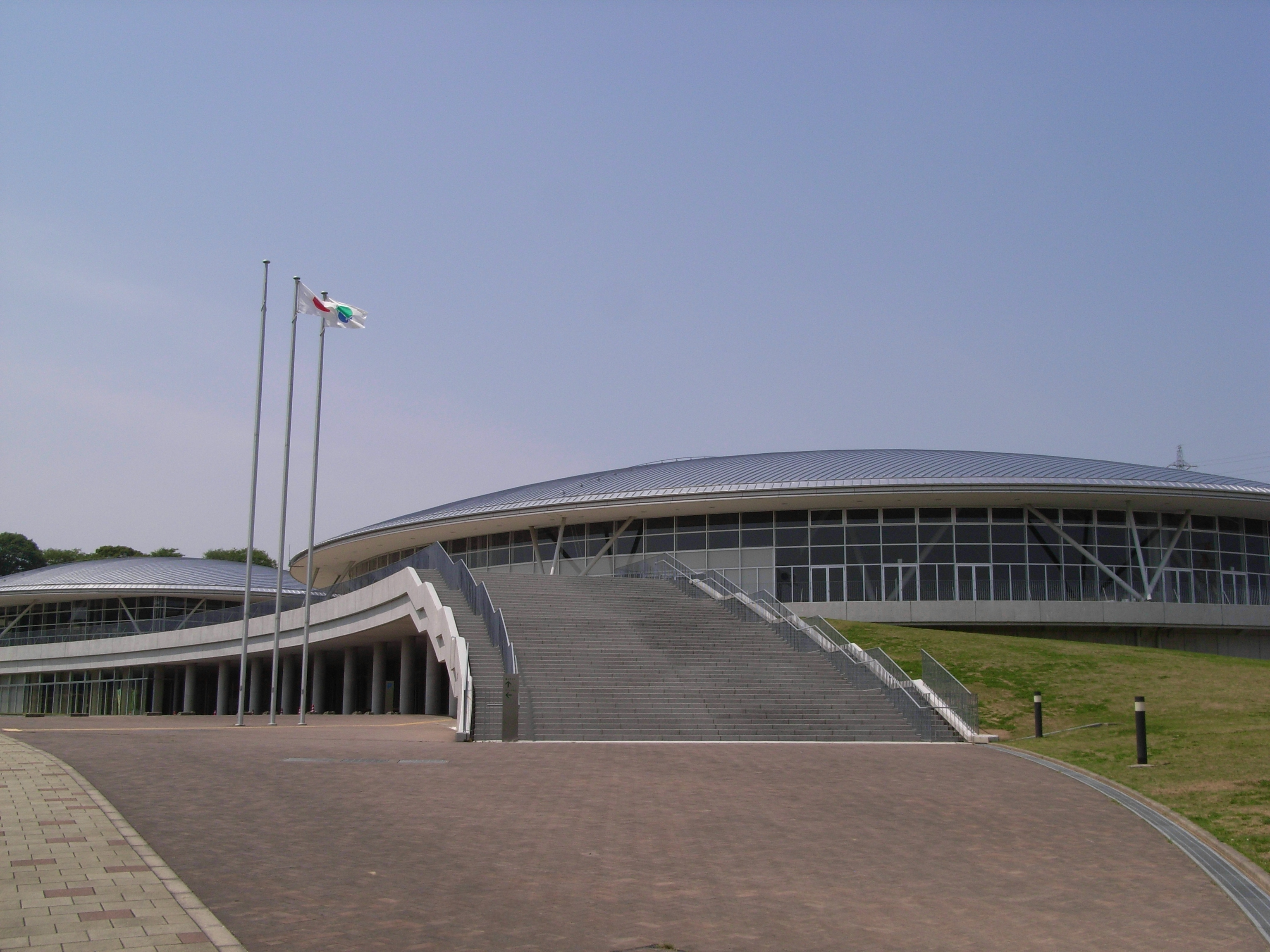 "Green Arena", Hamamatsu City Hamakita Sports Center